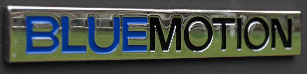 the trunk-badge of a VW Bluemotion vehicle